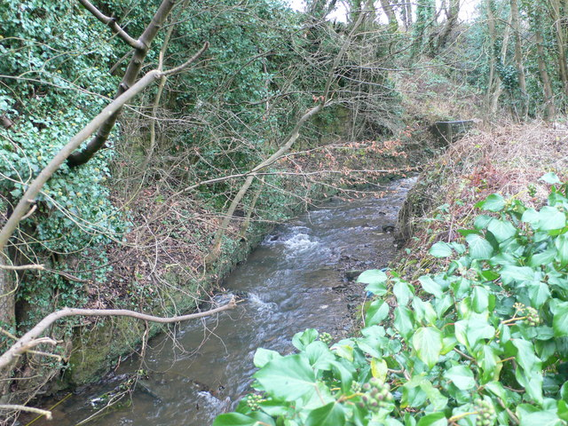 Afon Gwenfro, near to New Broughton, Wrexham/Wrecsam, Great Britain. Between Southsea and Tanyfron